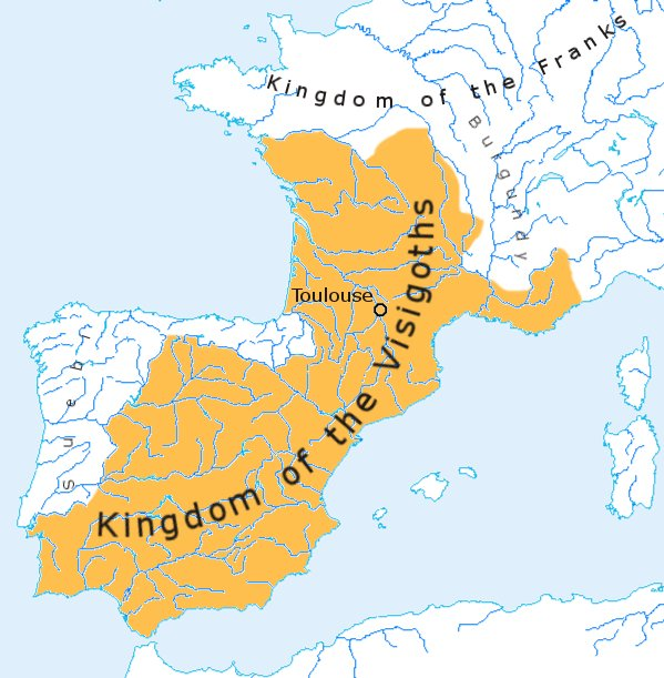 Extent of the Visigoth kingdom of Toulouse by 500